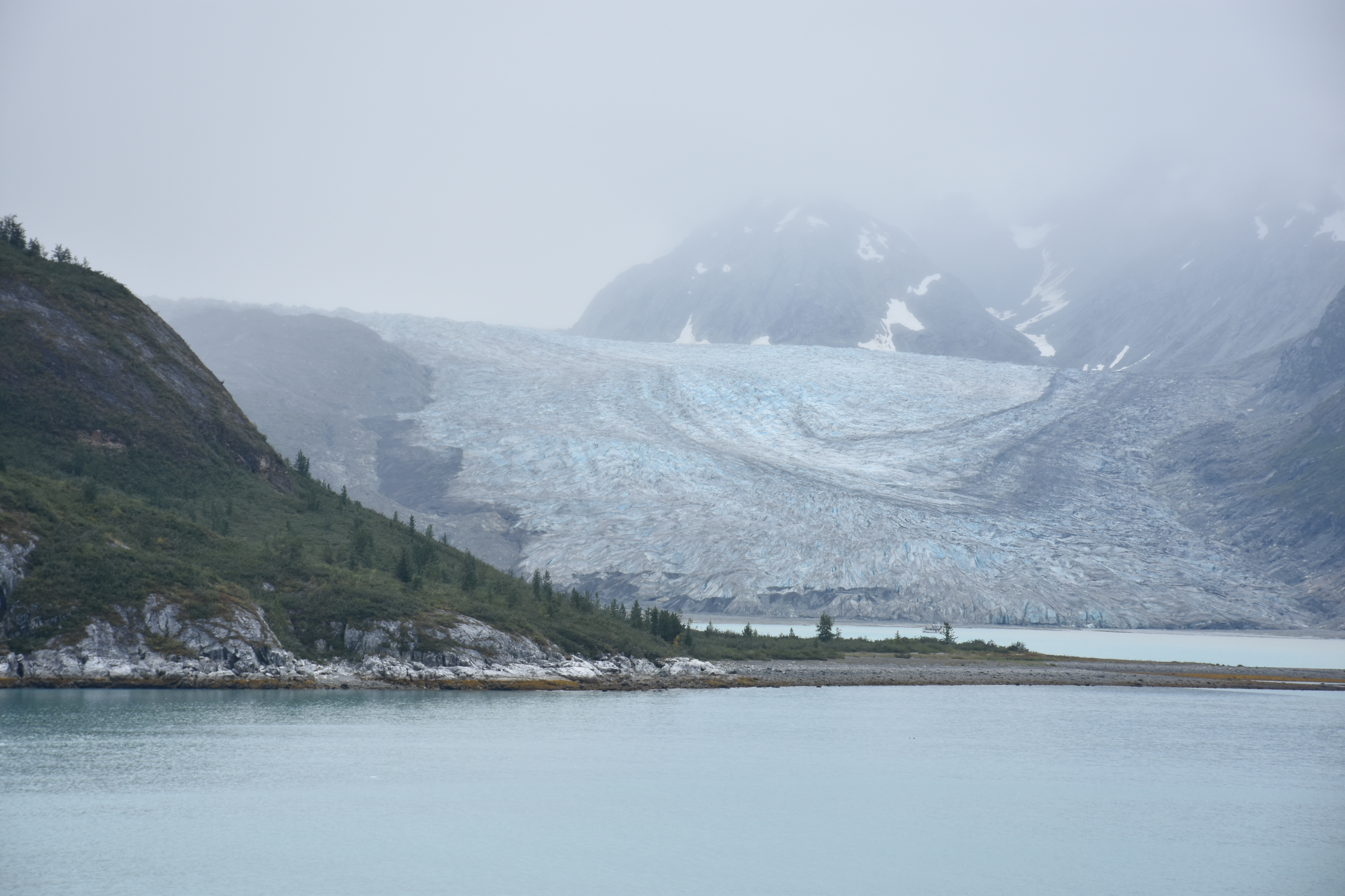 Views of Glacier Bay, Alaska, from a ship.